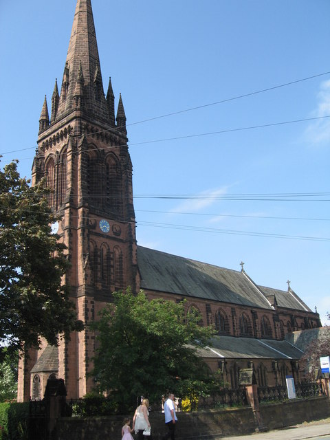 Photograph